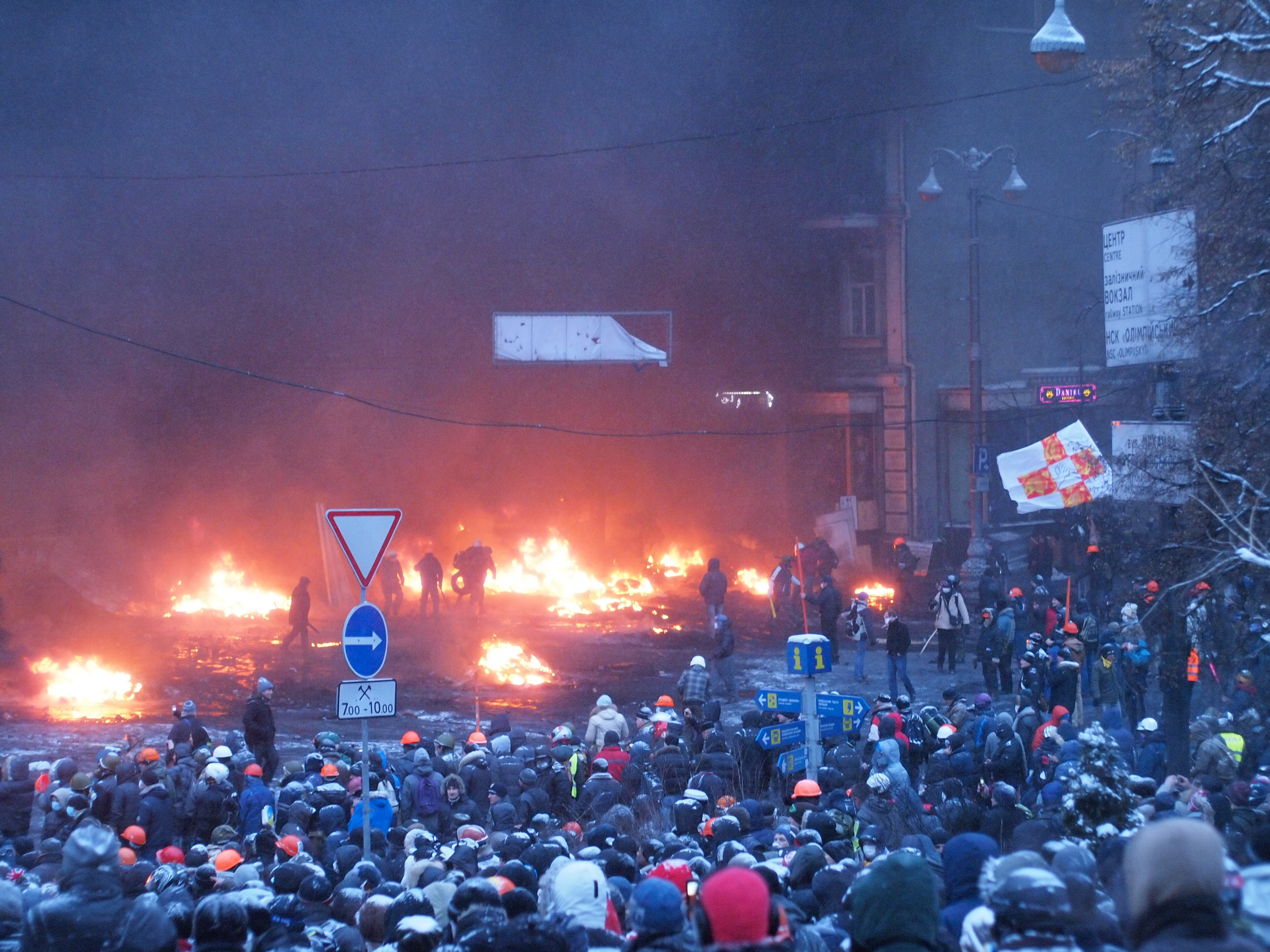 Protests on Hrushevskyi street, Kiev, 22 January 2014